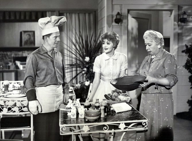 Photo of Harry Morgan as Pete Porter, Cara Williams as his wife, Gladys, and Verna Felton as Hilda Crocker from the television program Pete and Gladys. The show was a spin off of December Bride; the characters Pete and Hilda were seen on the show, but Pete's wife, Gladys, was not until the premiere of this program.